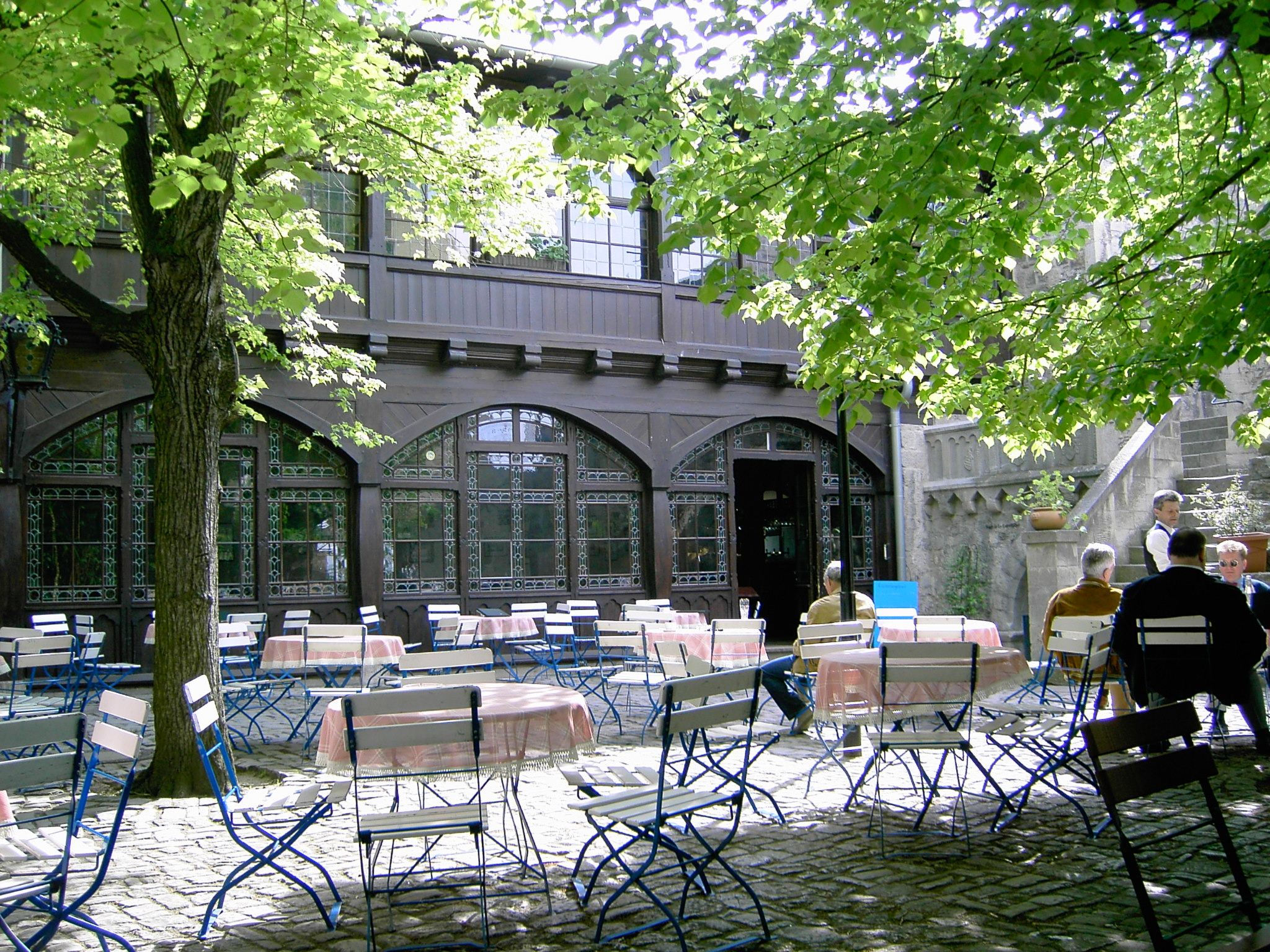 Interior view of Rudelsburg castle in Saxony-Anhalt